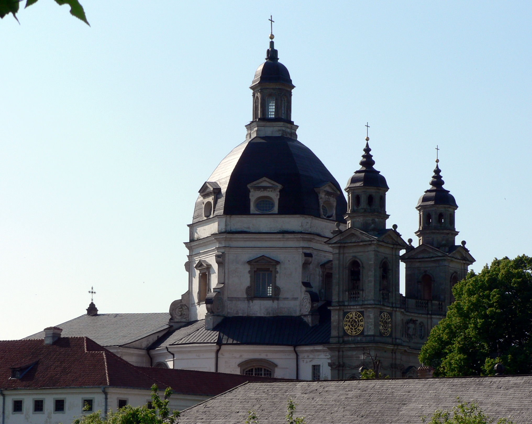 Church and Monastery of Pažaislis, Kaunas, Lithuania.